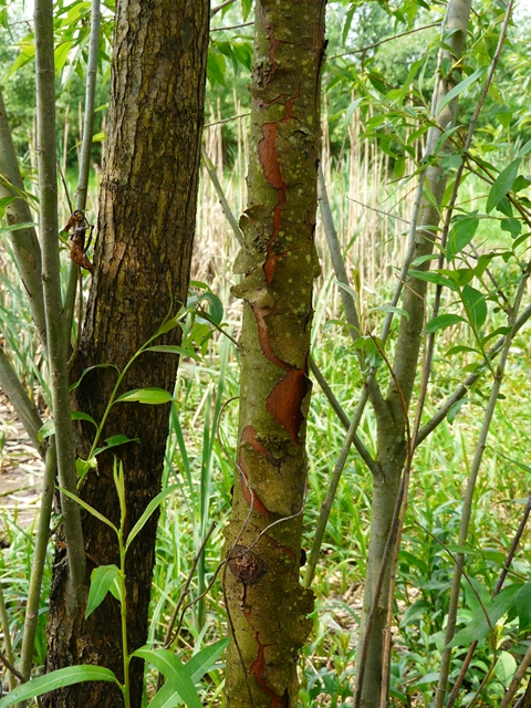 Bark (middle) of Salix triandra